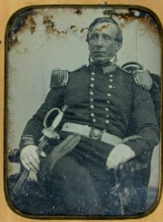 Portrait of Thomas Childs. By Southworth & Hawes, Boston